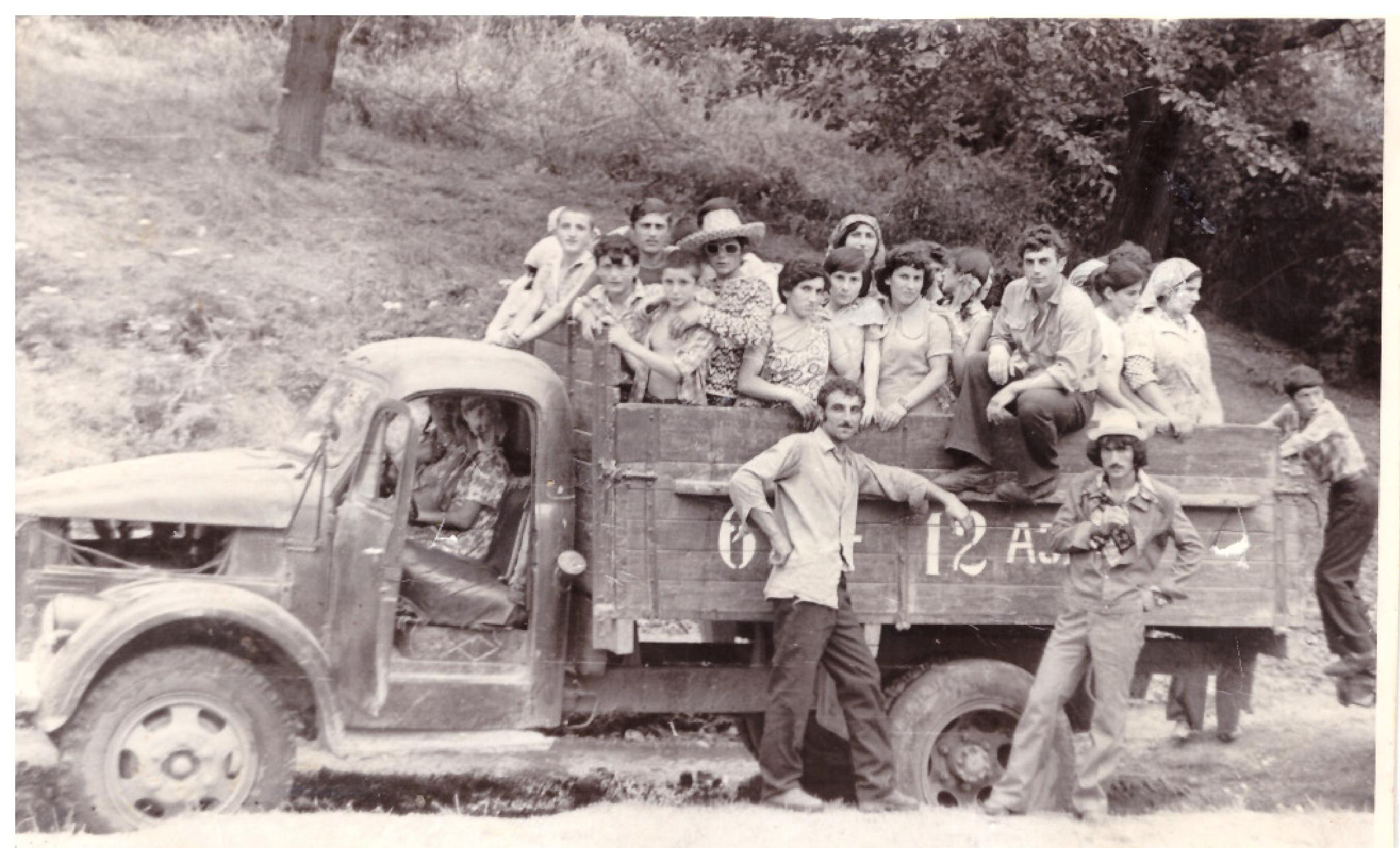 The villagers go to work